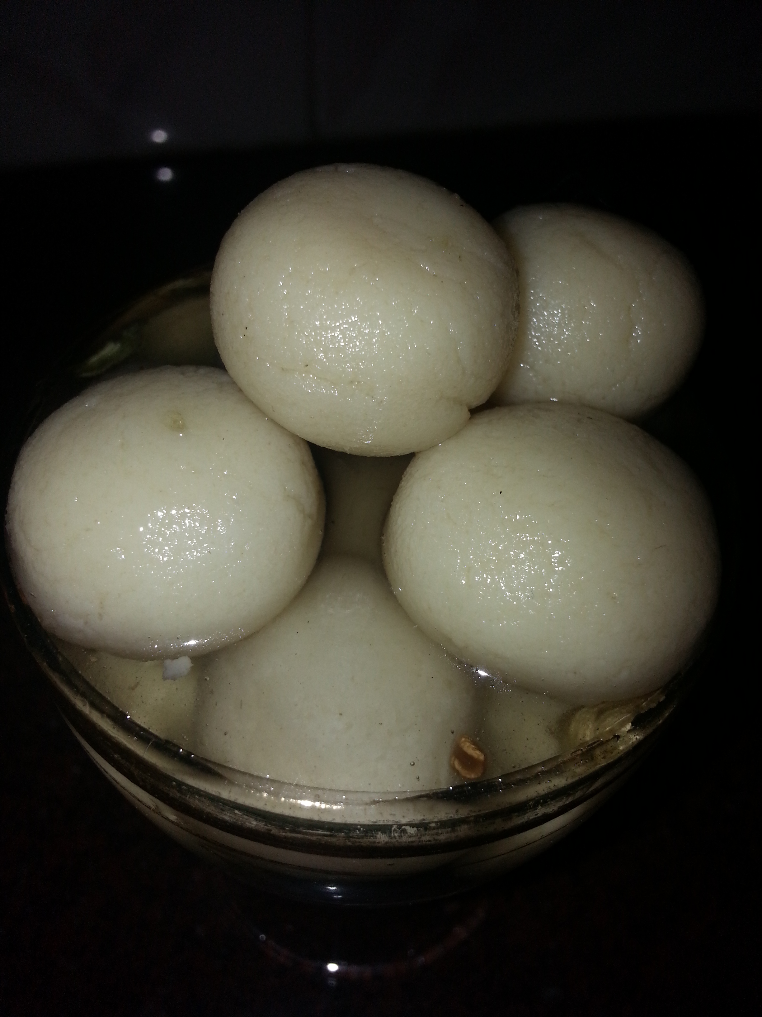 rasagullas